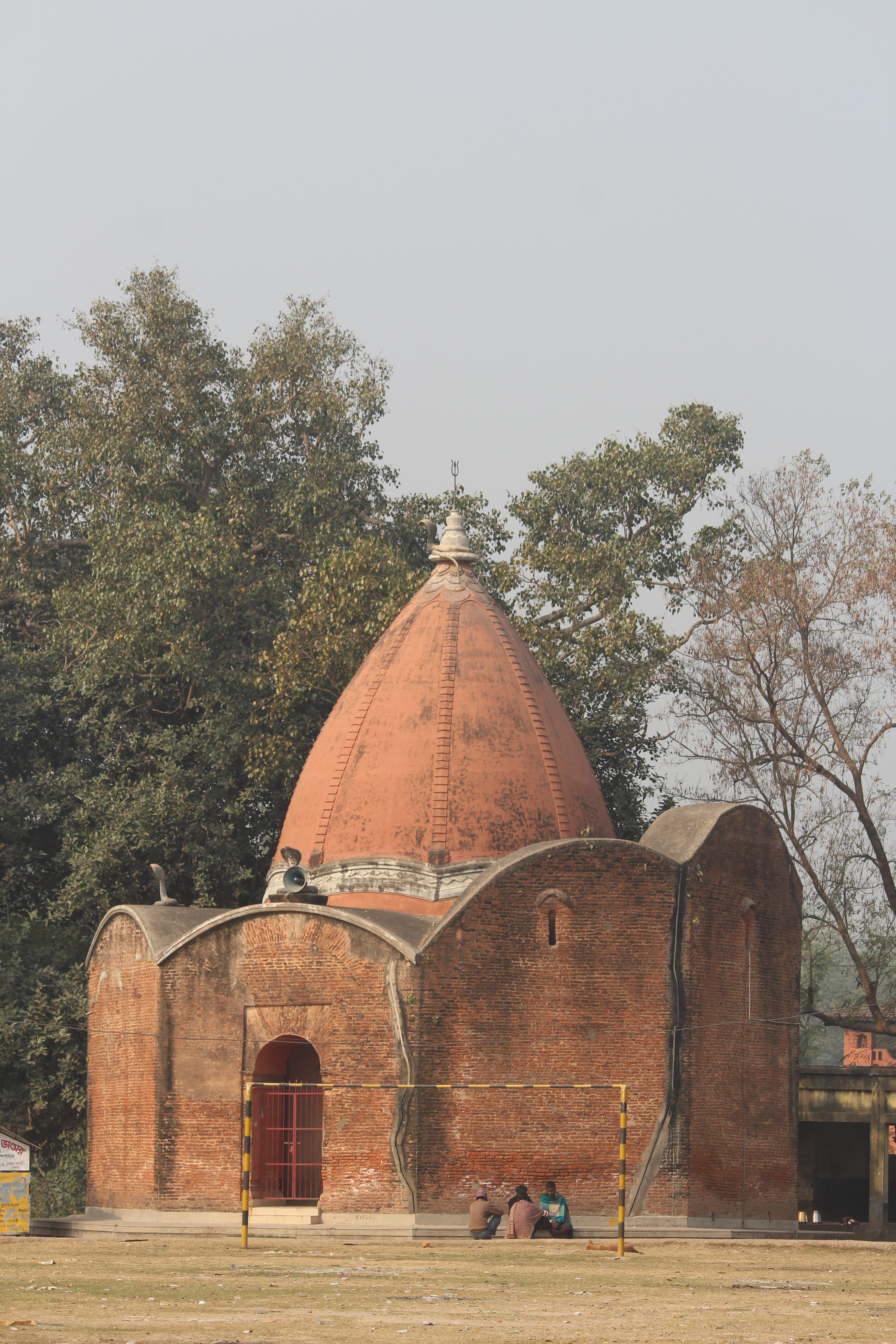 Idol of Kali of Akalipur Kali temple in Birbhum district